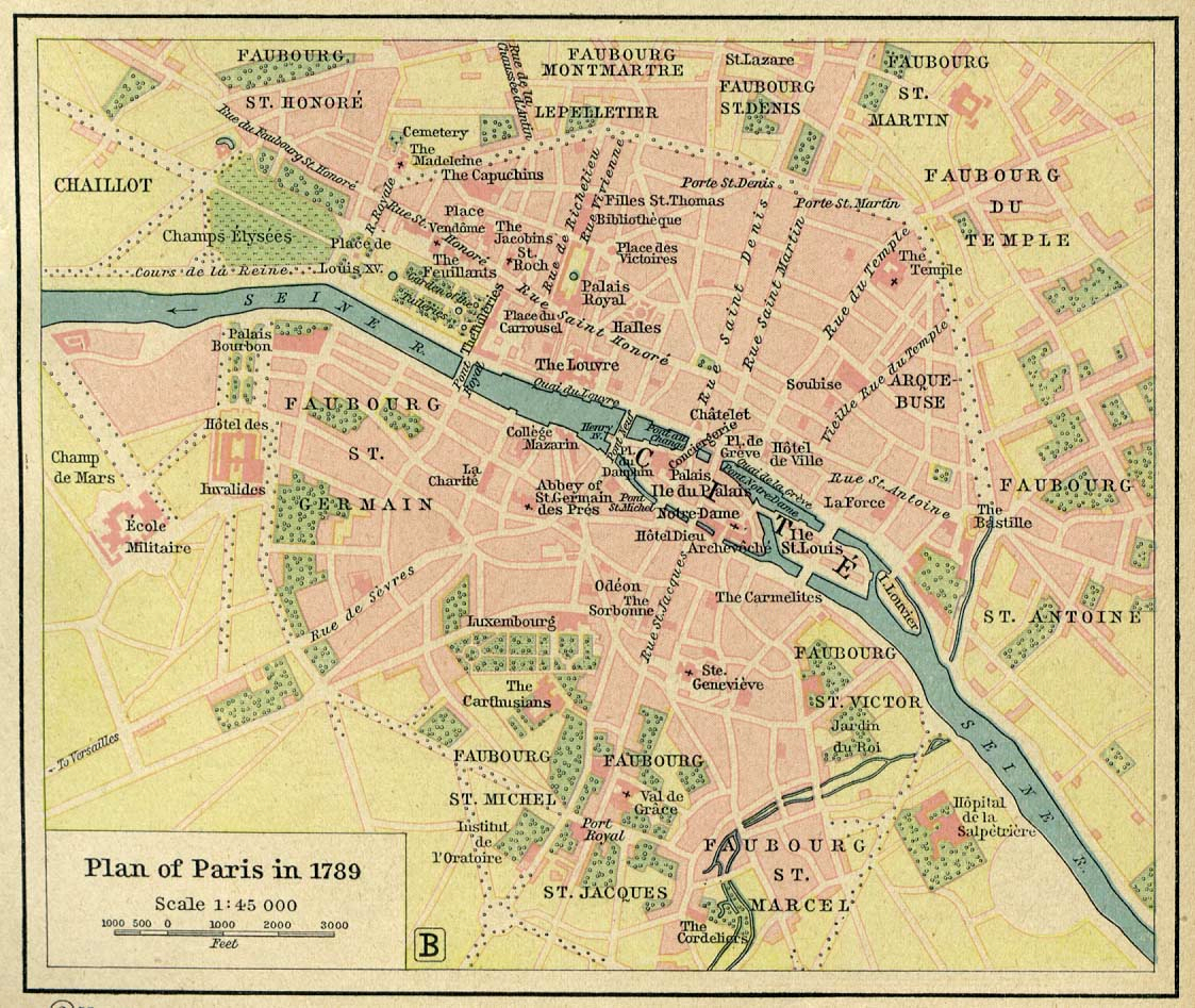 A map of Paris in 1789 from William R Shepherd's Historical Atlas.